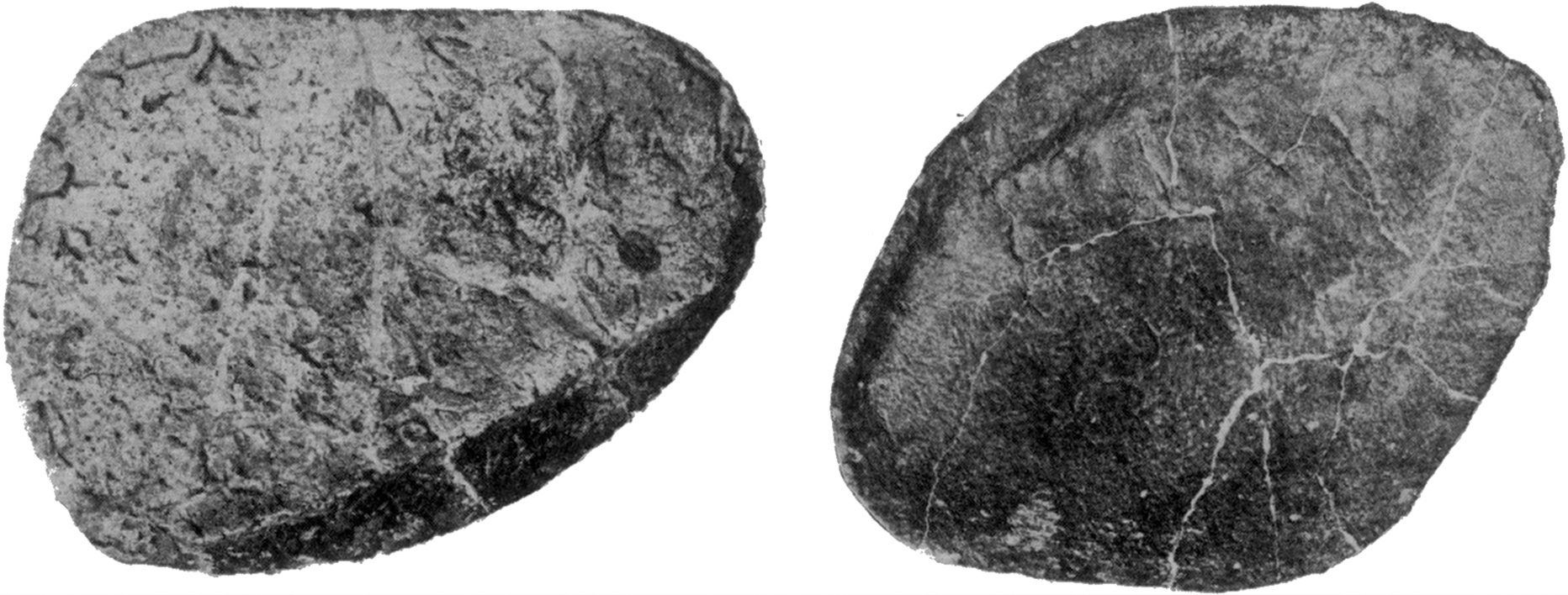 Osteoderm of Ankylosaurus specimen AMNH 5895 in outer and inner view.